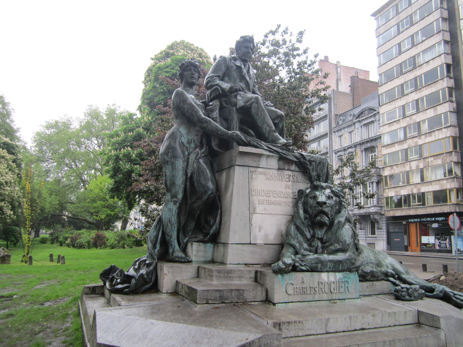 Bronze statue of Charles Rogier erected in 1905 in Liege, commemorating the 75th anniversary of Belgian independence.